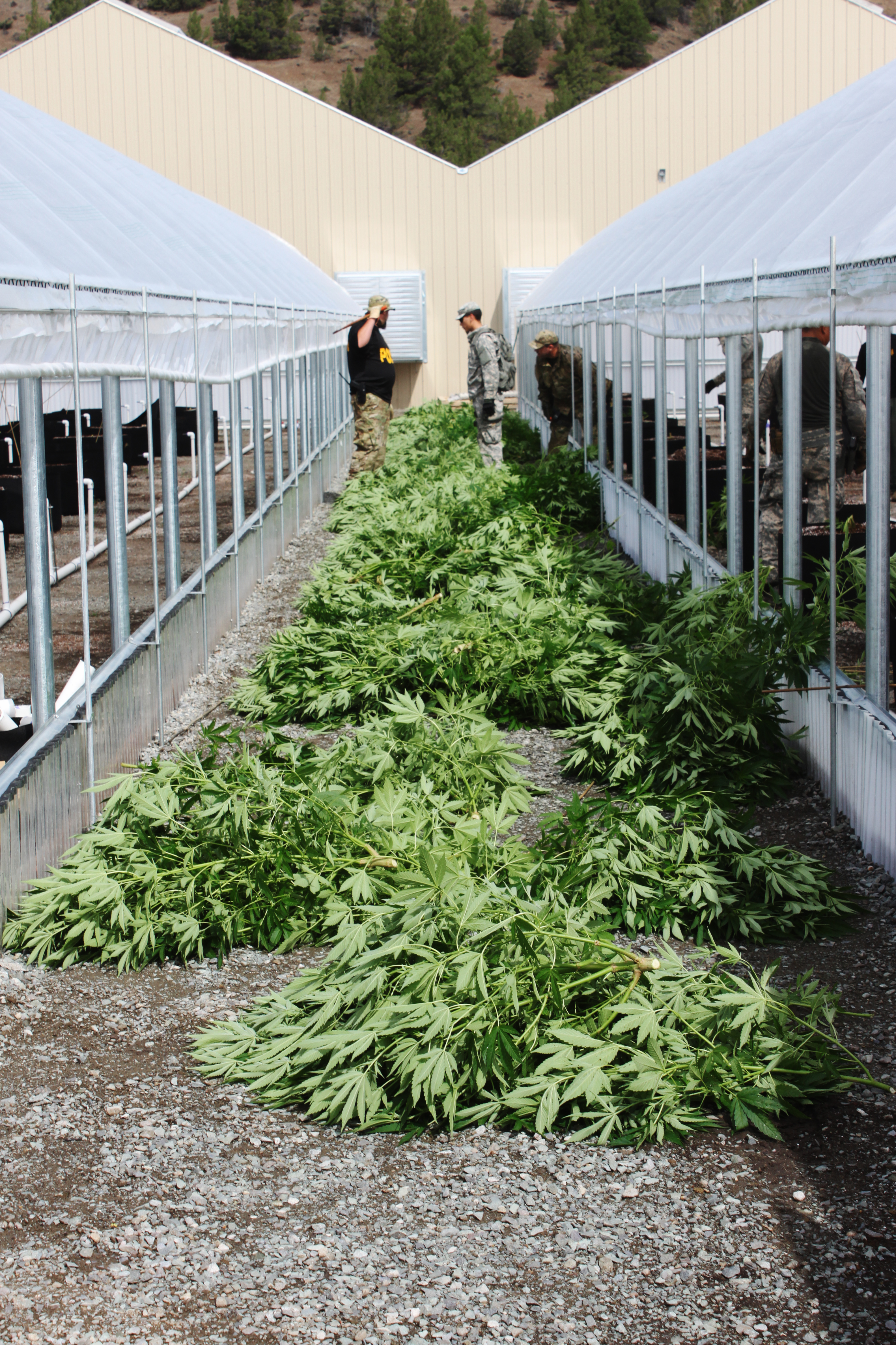 A member of the Counterdrug Task Force works with members of the Bureau of Indian Affairs, the Drug Enforcement Administration Fresno Area Surveillance Team and local sheriffs to eradicate illicit marijuana on Pit River tribal lands July 8. The Pit River site had 40 greenhouses housing a total of 7,000 plants. (U.S. Army National Guard photo/ Sgt. Brianne M. Roudebush/ Released) Unit: California Counterdrug Task Force DVIDS Tags: eradication; marijuana; California national guard; dea; drug enforcement administration; counterdrug task force; counterdrug; calguard; bia; Alturas; tribal lands; CDTF; illicit marijuana; bureau of indian affairs; dea fast; fresno area surveillance team; pit river